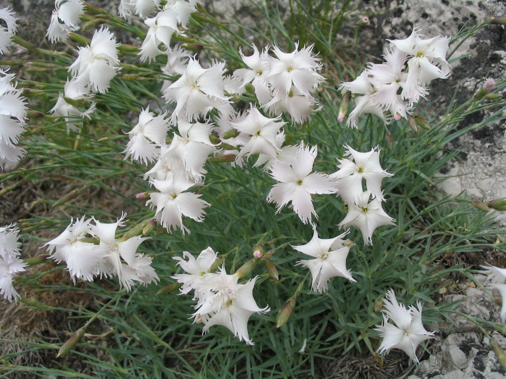 Moedlinger Federnelke (Dianthus plumarius subsp. neilreichii) This media shows the natural monument in Lower Austria with the ID MD-097.